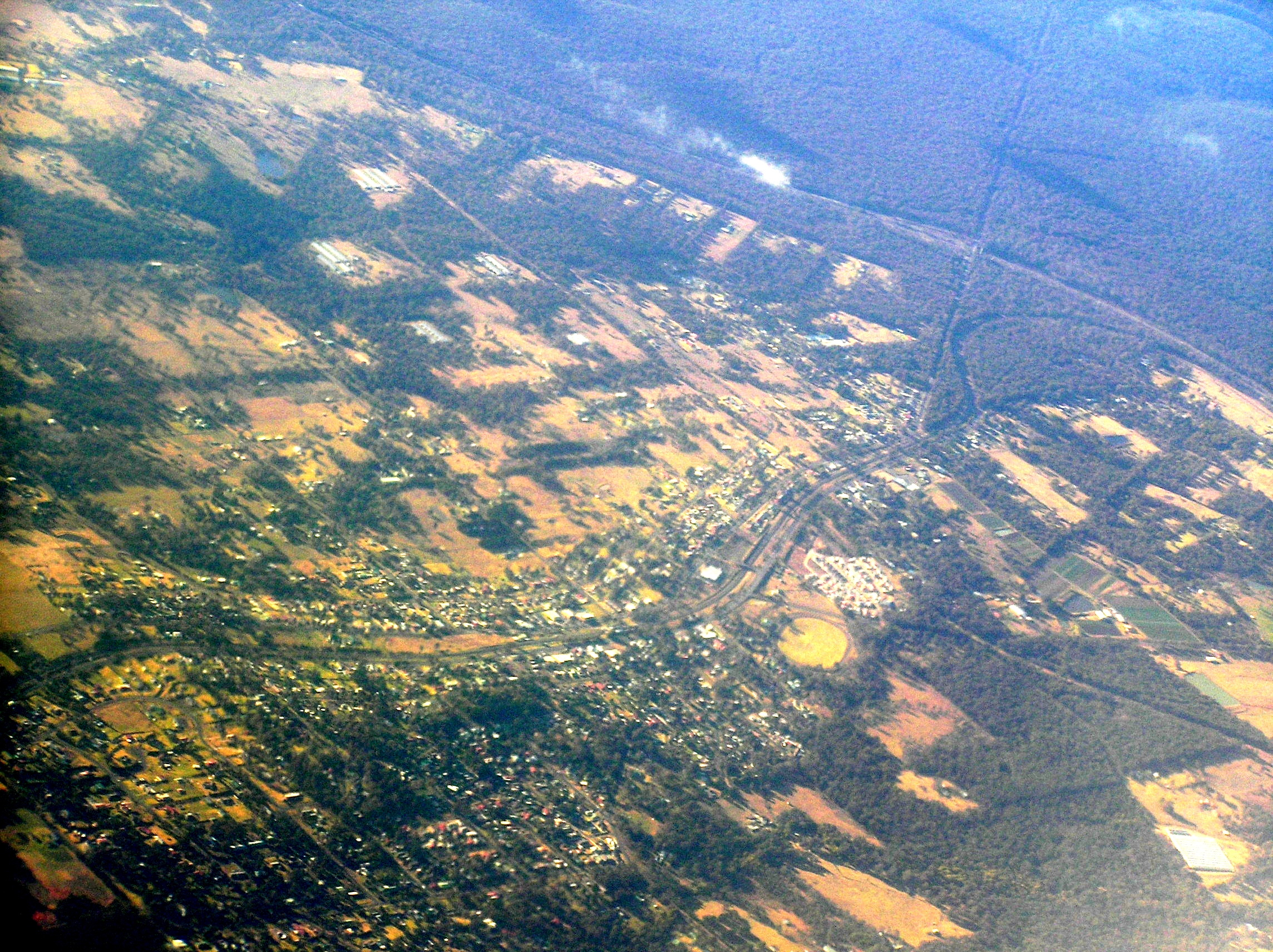 Aerial view of Bargo New South Wales from North West